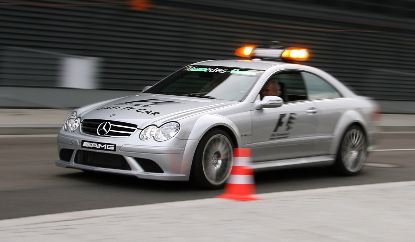 F1 safety car Mercedes-Benz CLK AMG.